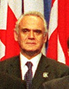 Apostolos-Athanasios Tsohatzopoulos, minister of defense of Greece, during the informal meeting of NATO defence ministers, October 2000